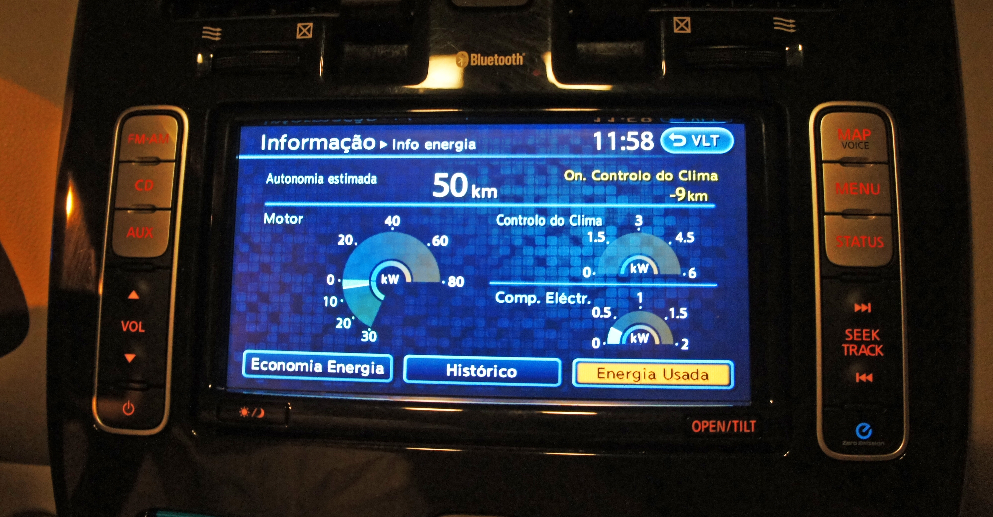 Nissan Leaf central digital panel showing energy consumption and range left in Portuguese.